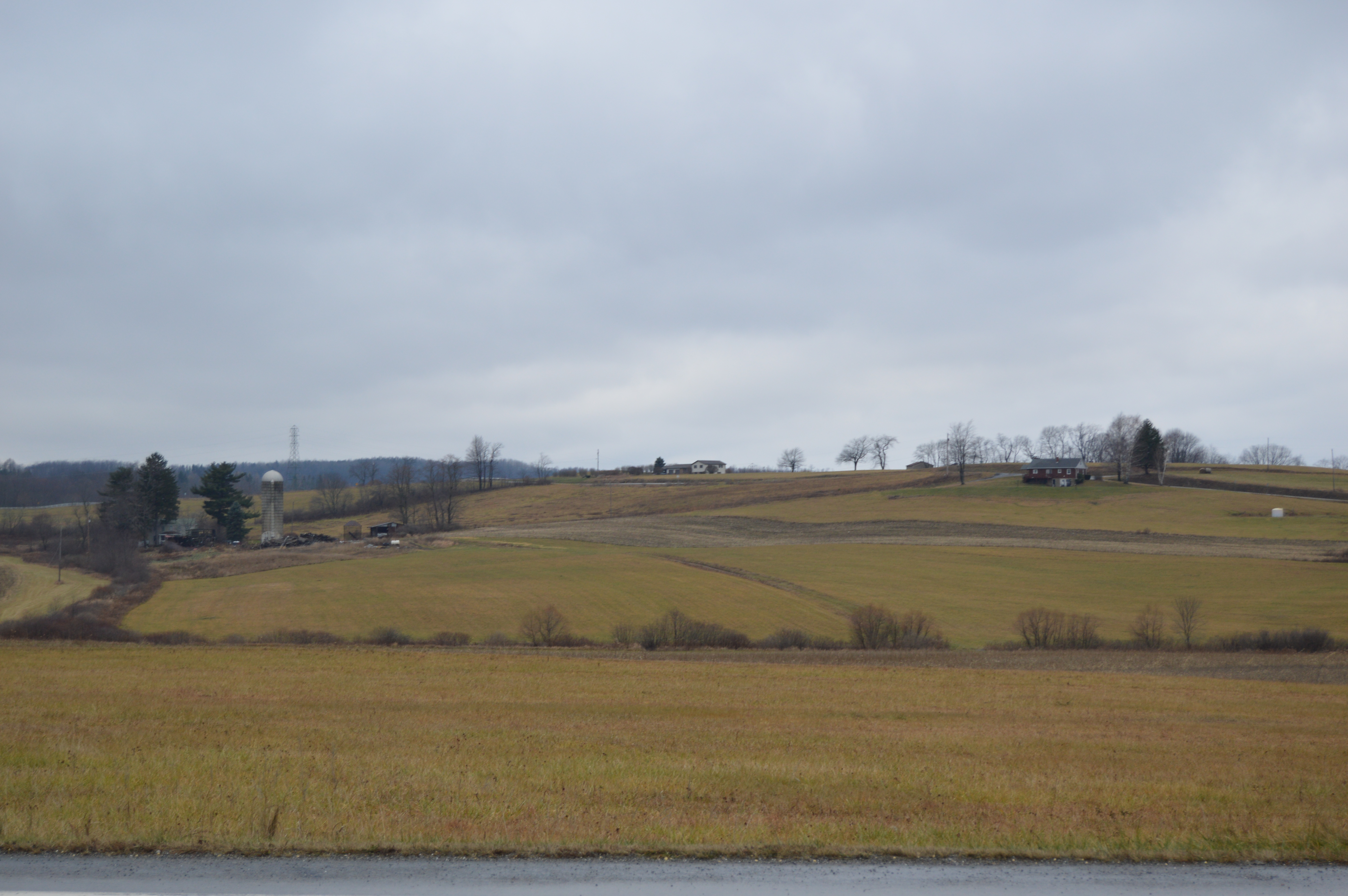 Farmland in Limestone Township, Clarion County, Pennsylvania, United States, seen looking west from Pennsylvania Route 66 south of Frogtown.